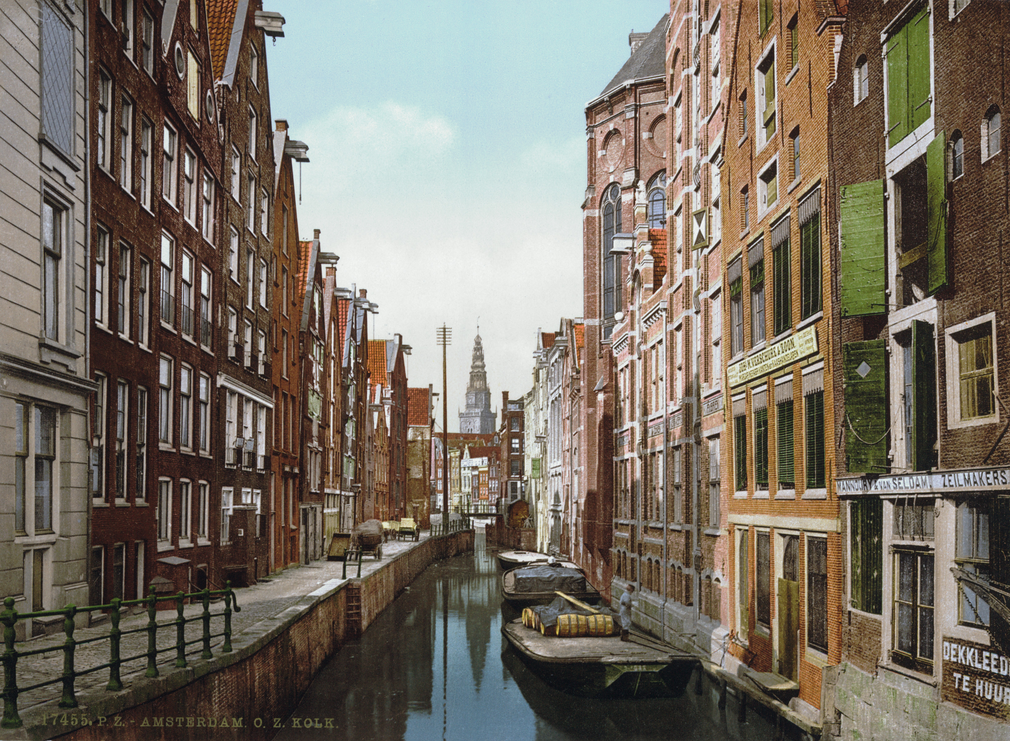 Old Zÿds, the Kolk (canal), Amsterdam, Holland Print no. "17455"